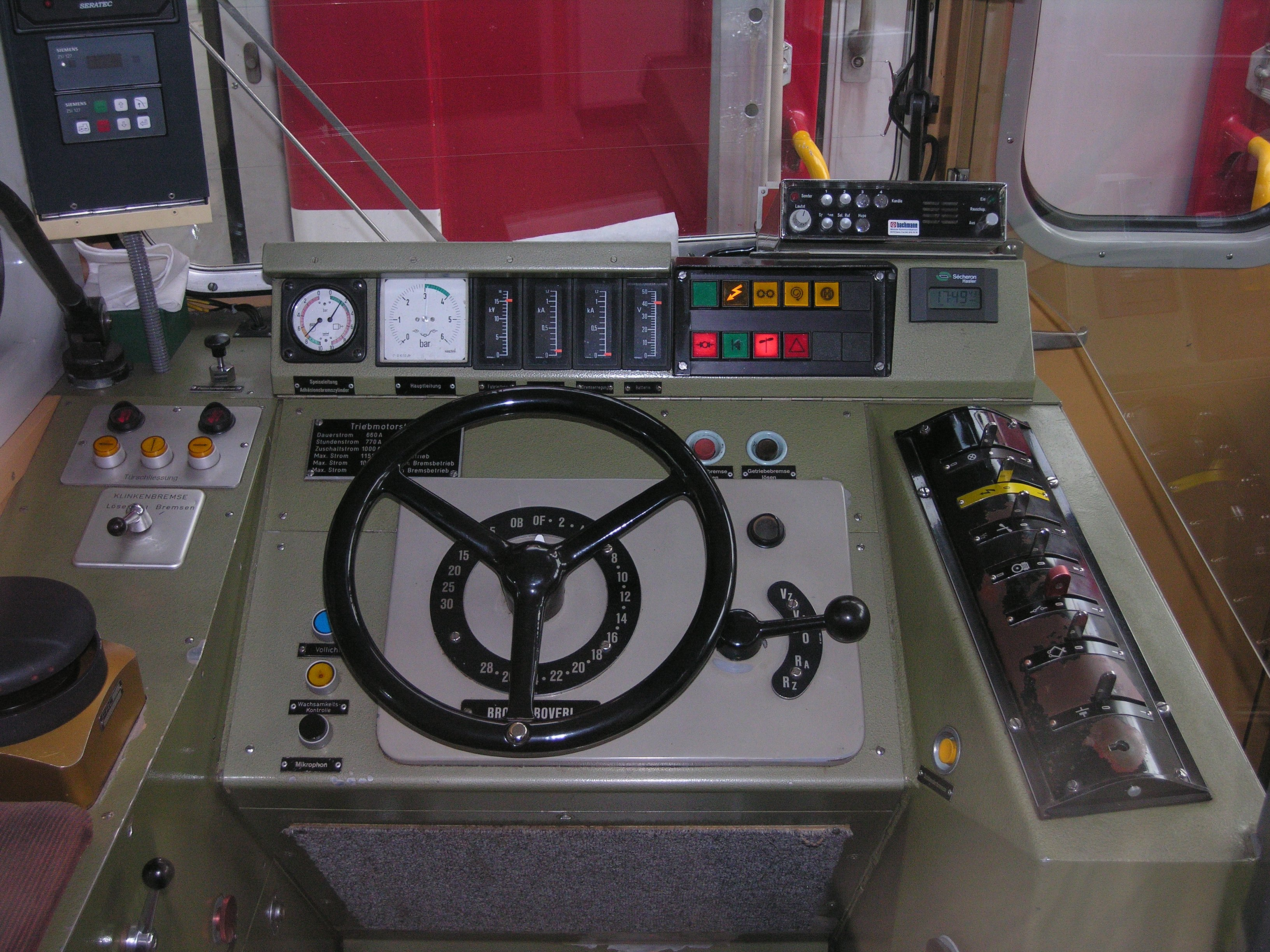 The driver place of the electric motor coach, used in the narrow gauge line Luzern-Engelberg (Switzerland). It is the 1000 mm gauge cogwheel electric motor coach BDeh 4/4 view, operating in line Luzern-Engelberg. The photo was taken on the controls in the driving trailer, largely identical to the controls of the motor coach.